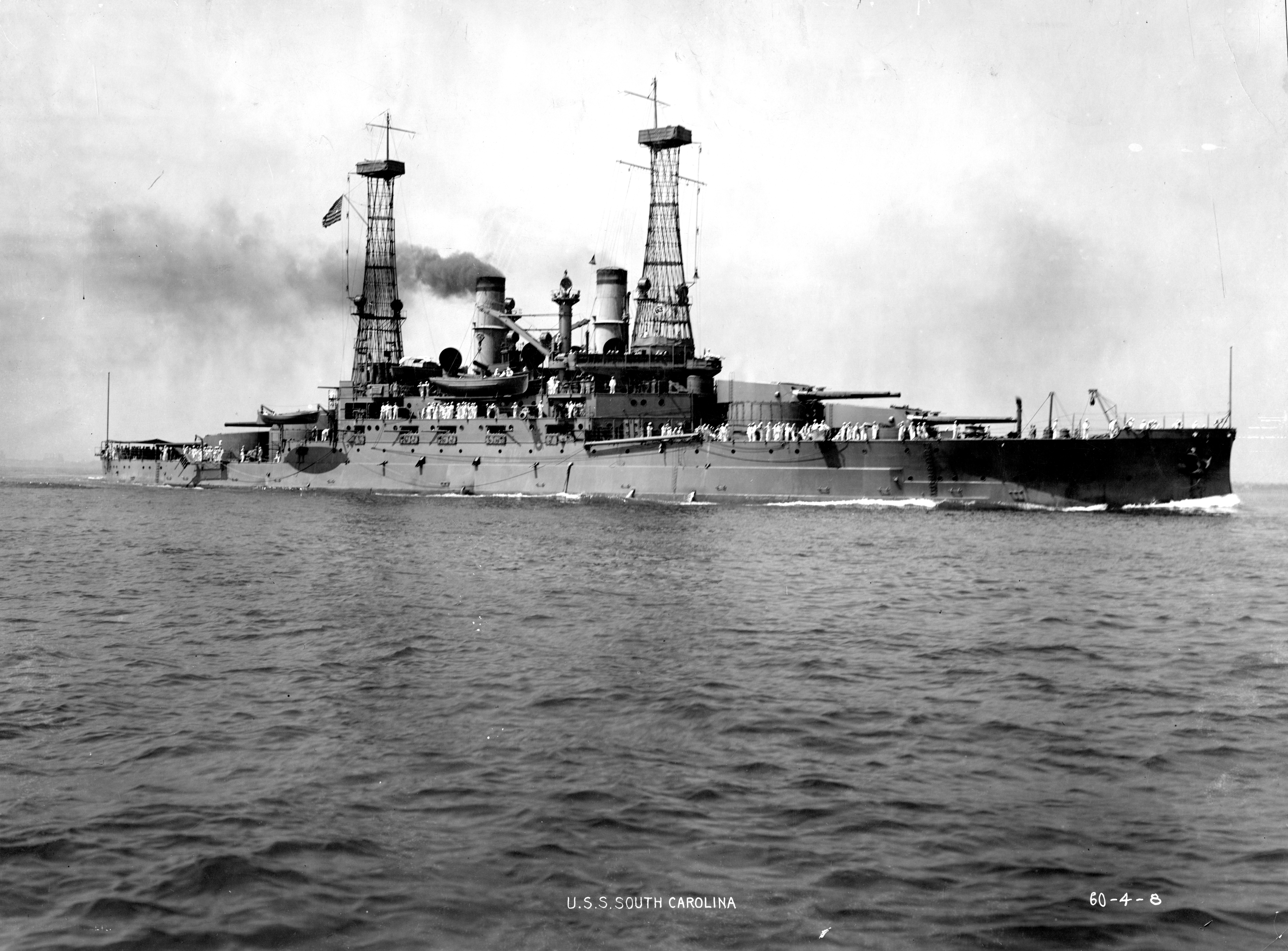 Photo #: NH 61225: USS South Carolina (BB-26): Underway